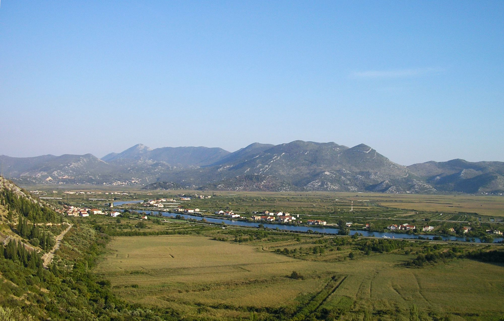 Villages Kula Norinska (ahead of Neretva river) and Krvavac II (over Neretva river), in the background Žaba mountain.